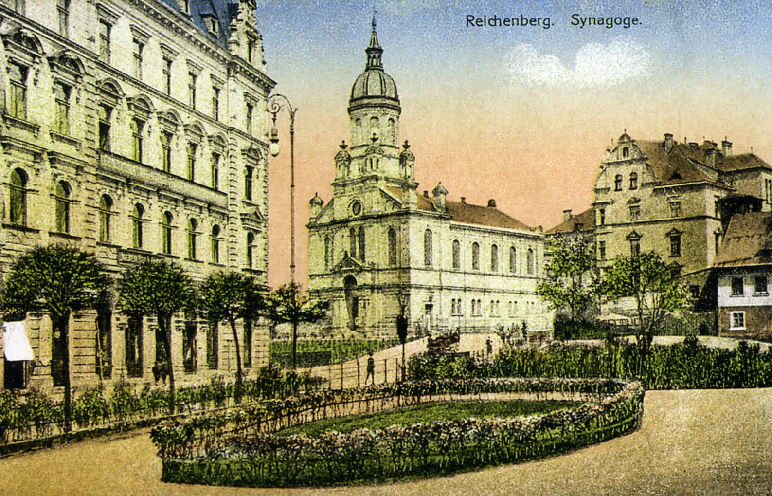 Synagogue in Liberec